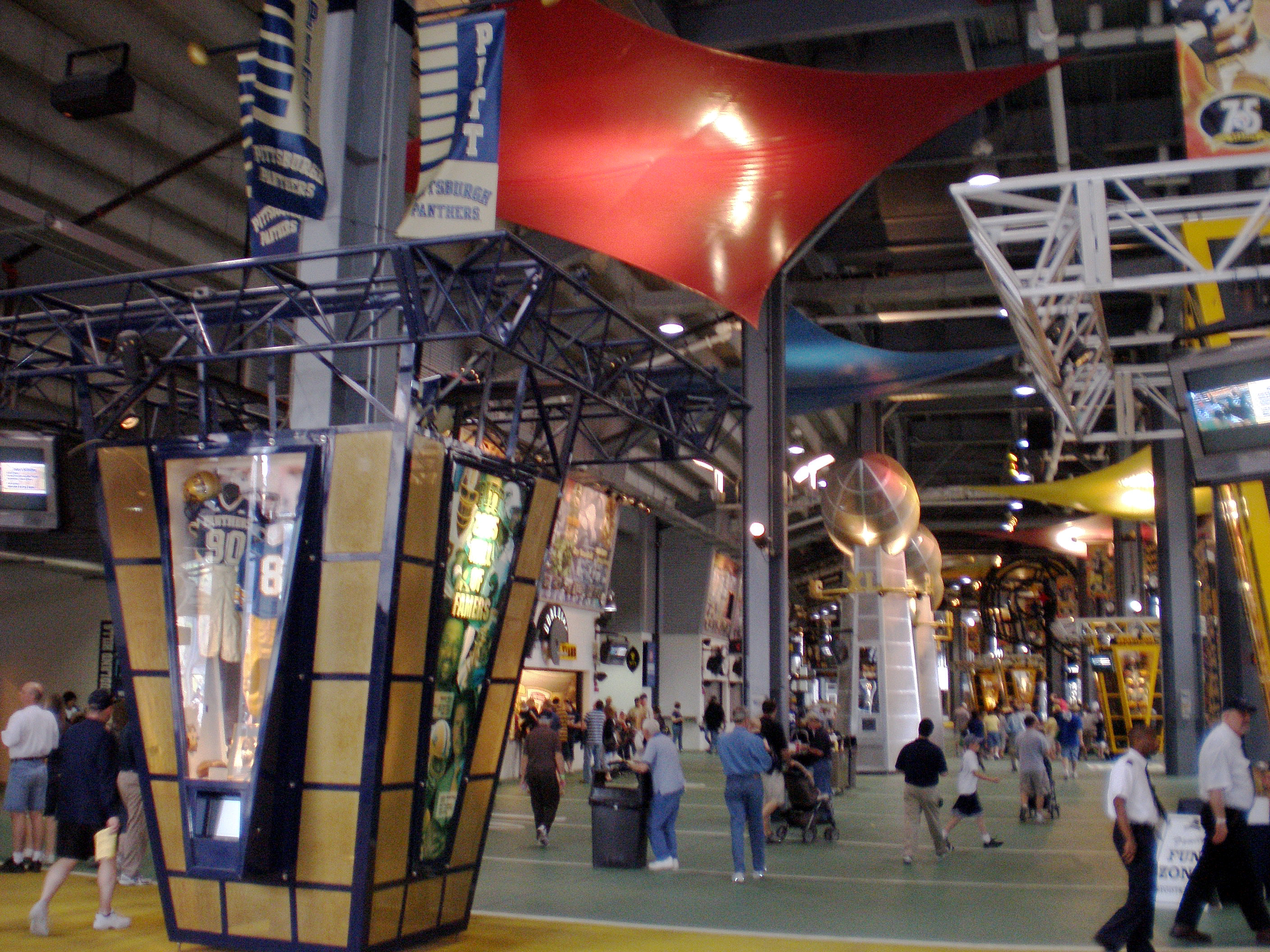 Gate A entrance to the Great Hall at Heinz Field.